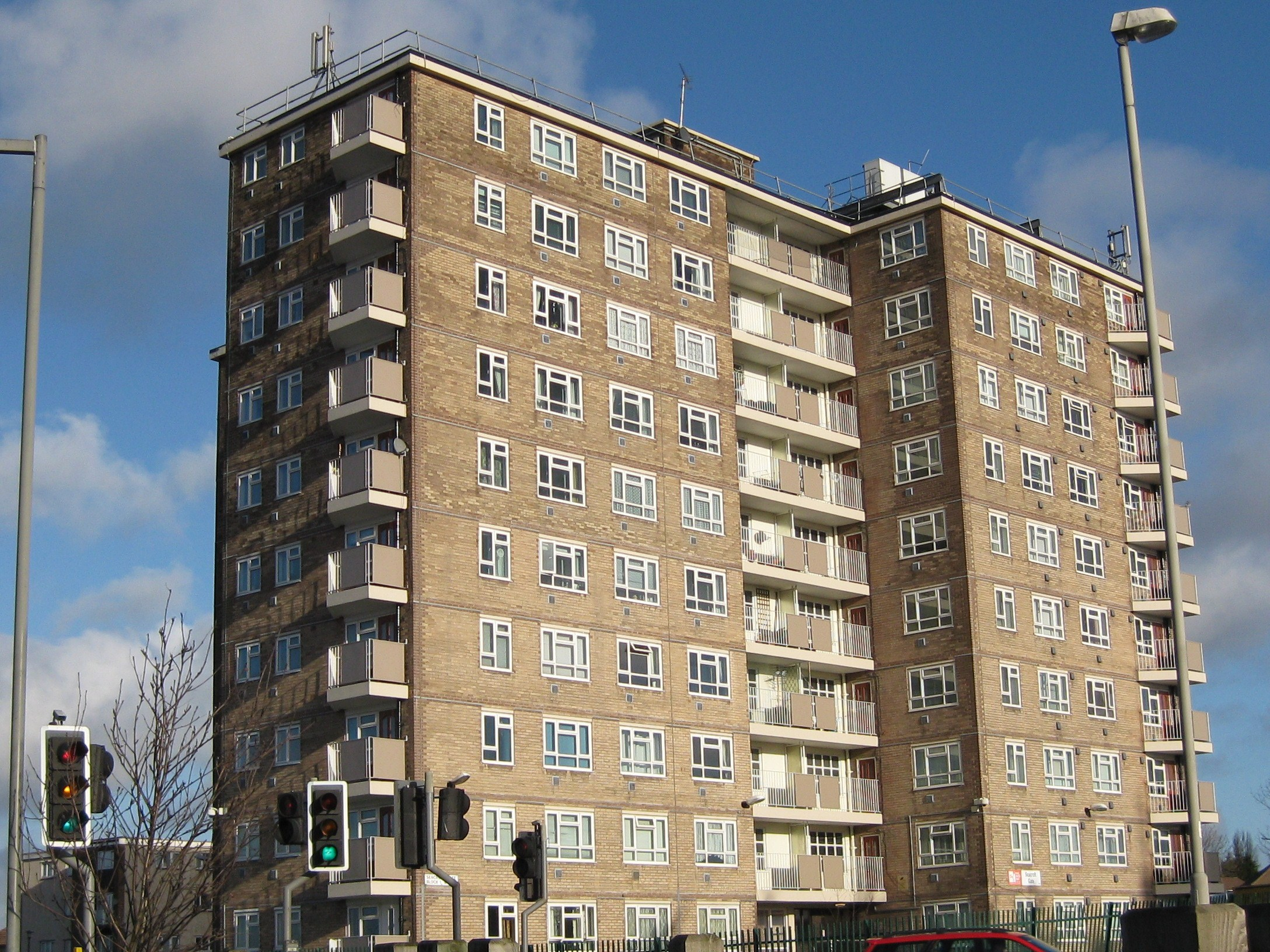 High rise flats in Seacroft, Leeds LS14